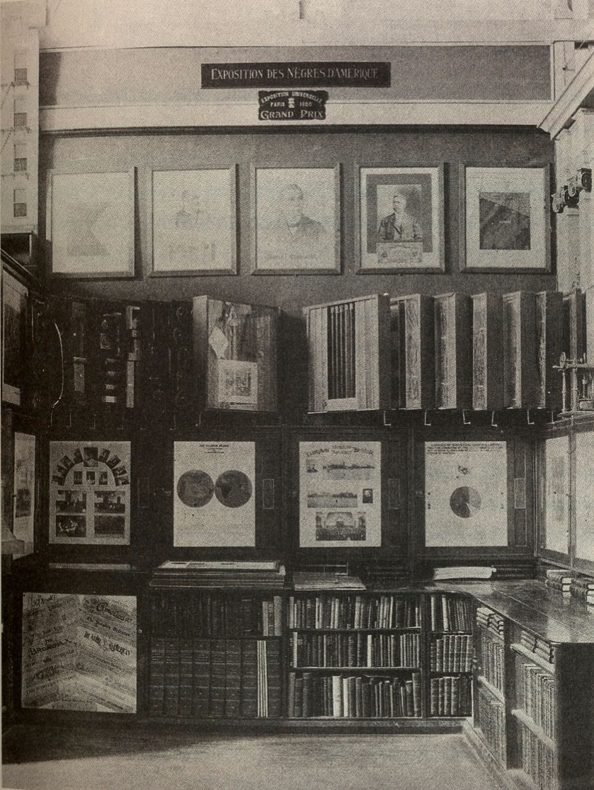 W.E.B. Du Bois (1868-1963): American Negro Exhibit at the Exposition Universelle, Paris, 1900